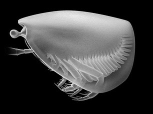 Thylacares brandonensis: reconstruction.